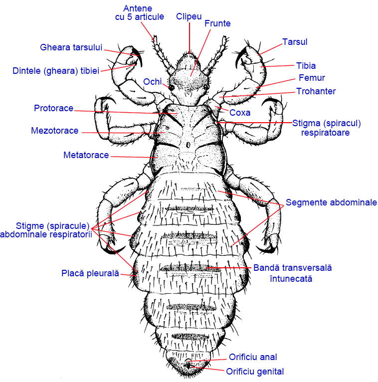 Pediculus humanus humanus, male